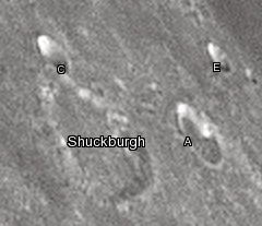 Shuckburgh lunar crater as seen from Earth with satellite craters labeled